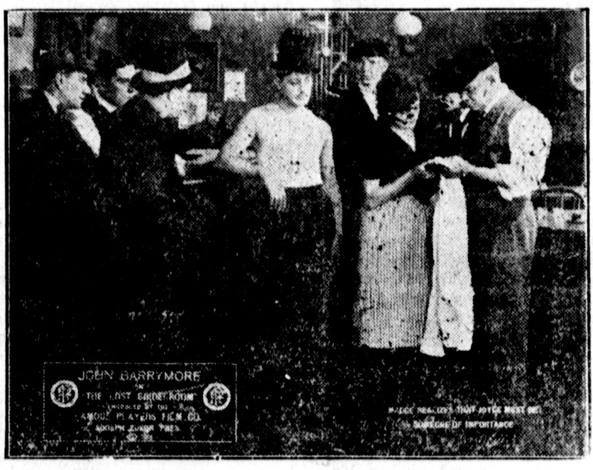 The Lost Bridegroom a 1916 silent film comedy produced by Adolph Zukor starring John Barrymore. This is a scene from the film as published in a contemporary newspaper.